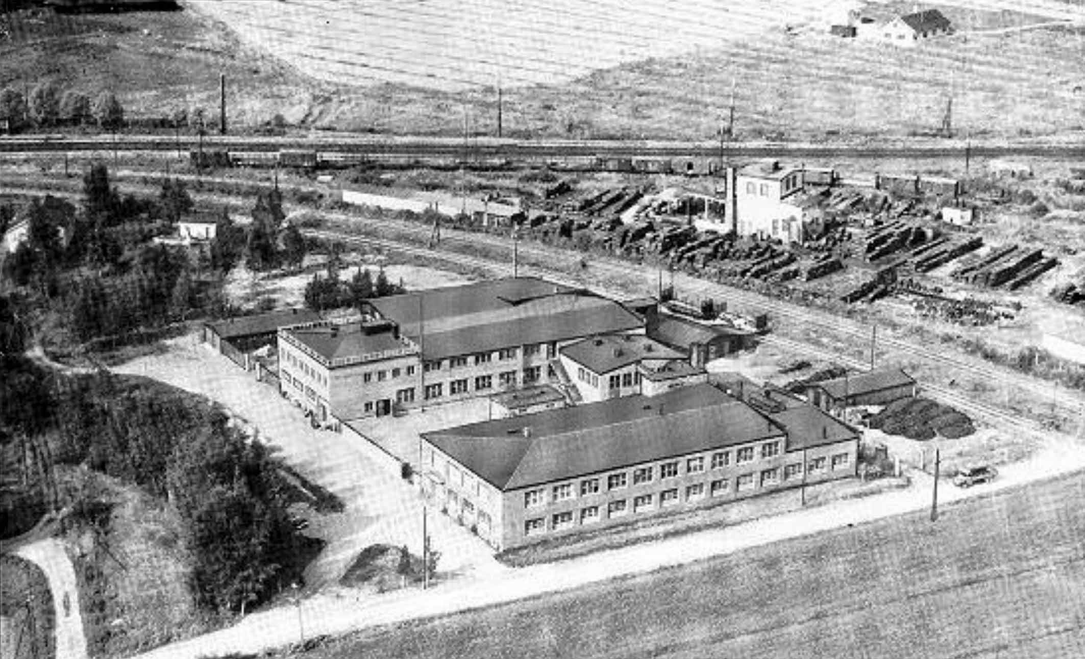 Primo, architectural hardware factory in Ala-Malmi, Helsinki, 1954. Replaced in the 2010s by a residential area called Ormuspelto.